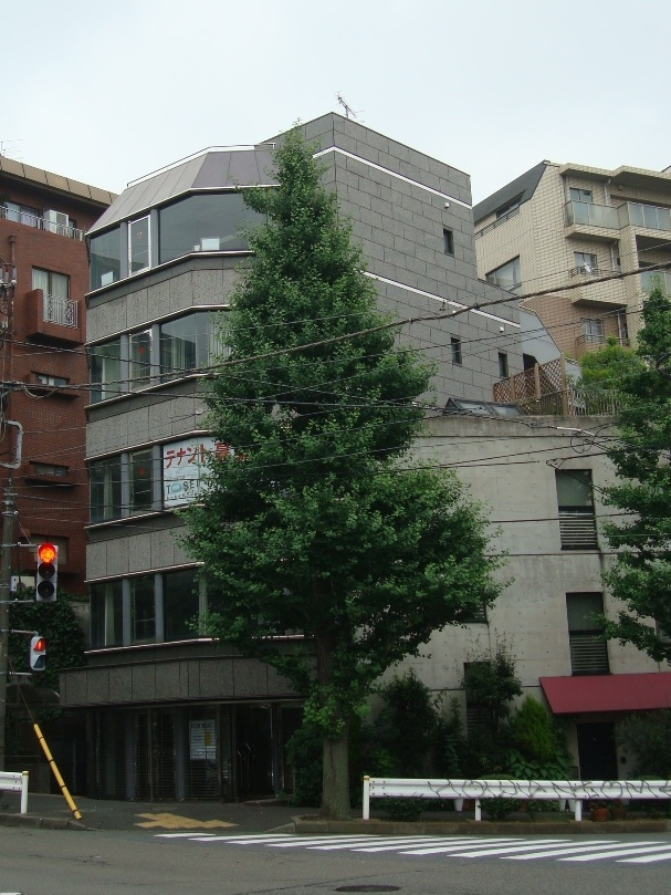 Former AUM Shinrikyo headquarters building, Aoyama, Tokyo